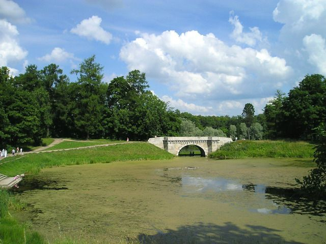 Karpin bridge in Gatchina park